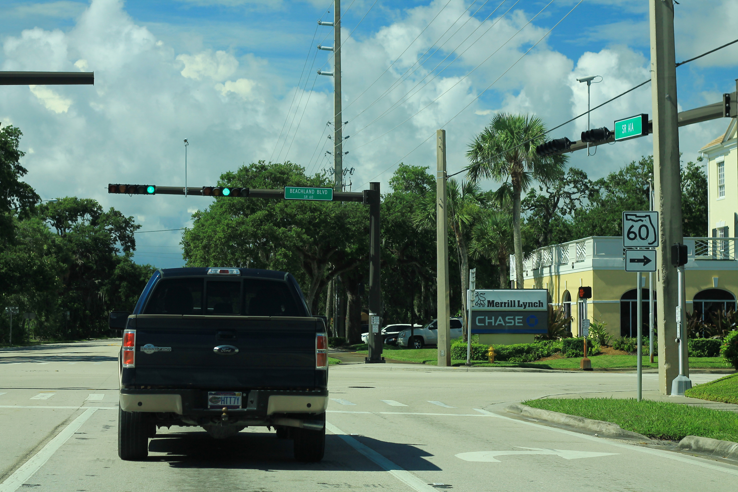 A1A South - FL60 Sign